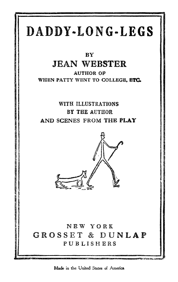 Frontispiece of Jean Webster's epistolary novel Daddy-Long-Legs (1919 edition). The picture is made by the author of the novel.